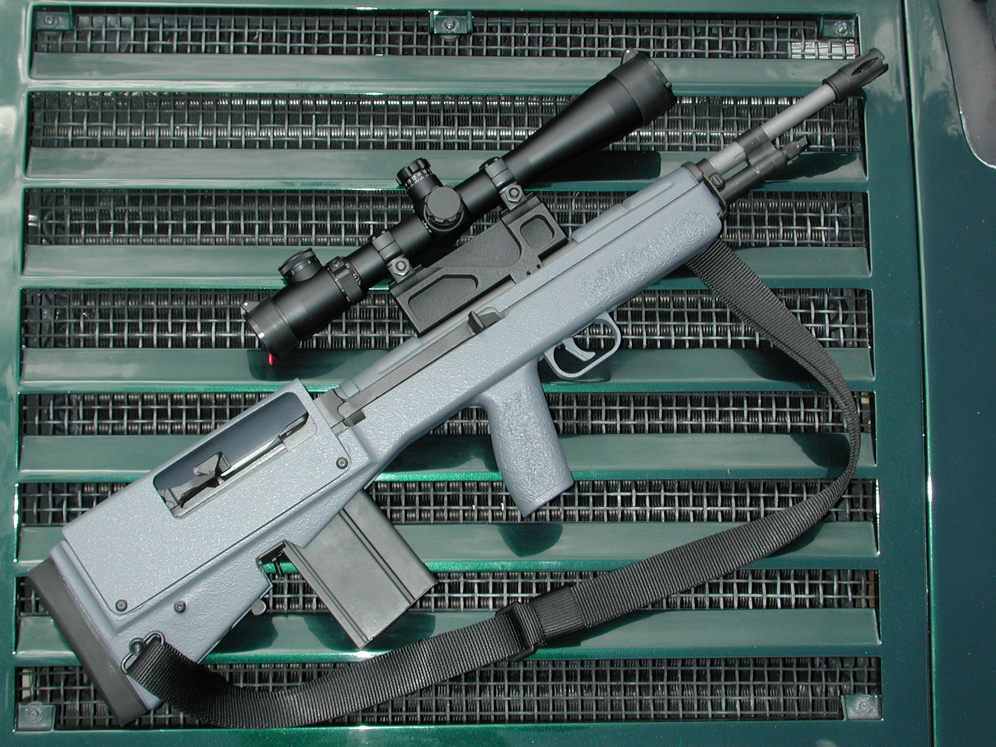 Photo taken by author of article. No copywrite infringement whatsoever.